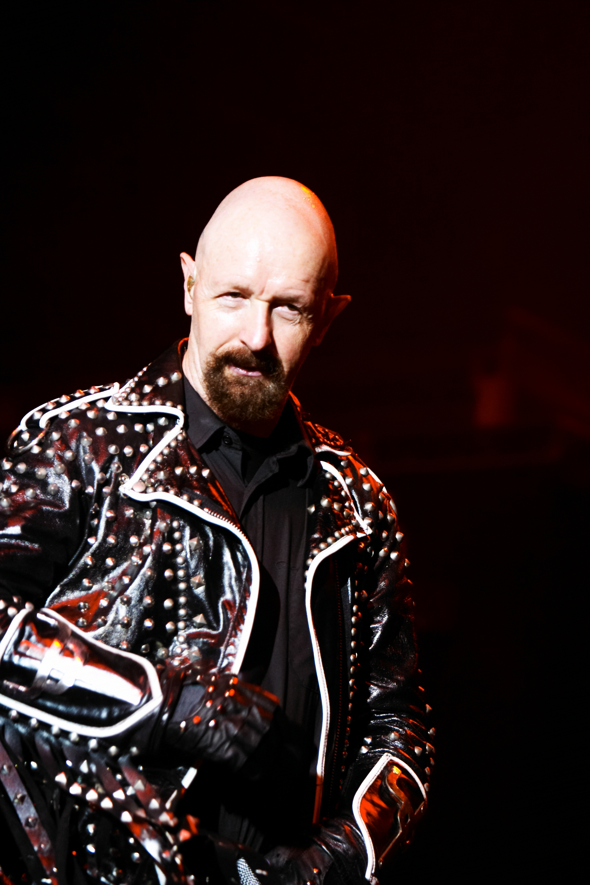 Rob Halford 2004